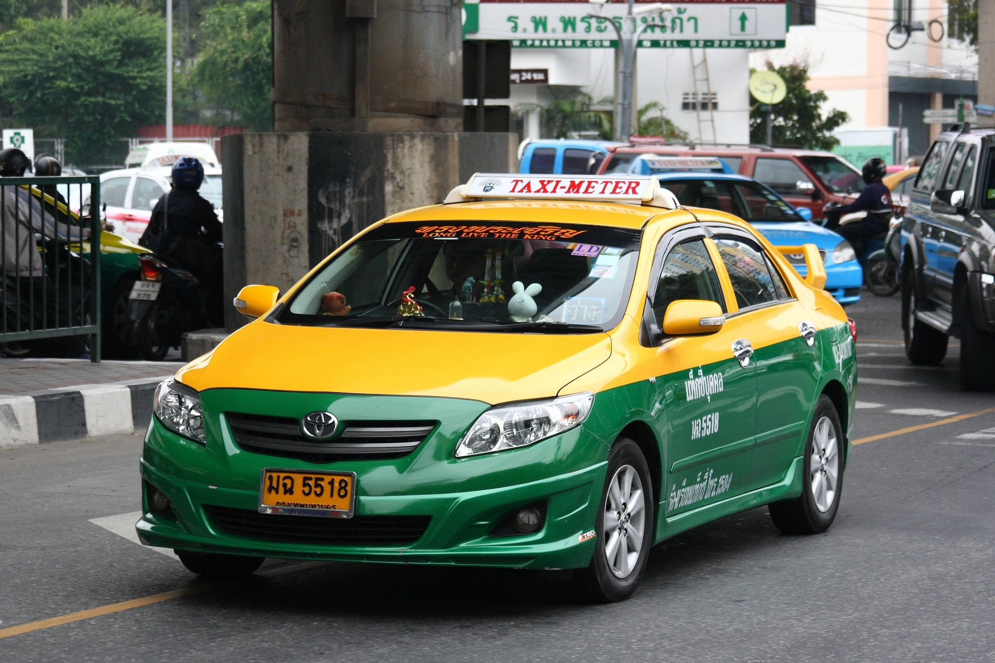 Taxi-meter in Bangkok (Toyota Corolla)